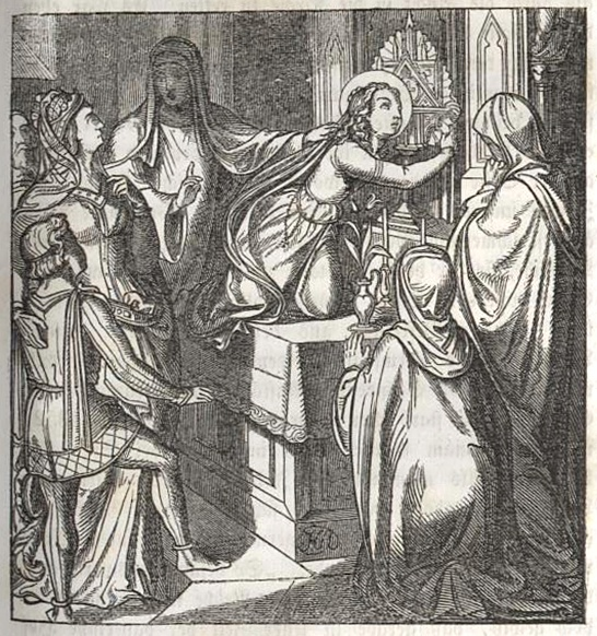 Prinzessin Agnes von Bayern (+ 1352) umarmt die Monstranz in der Klosterkirche St Jakob am Anger, München